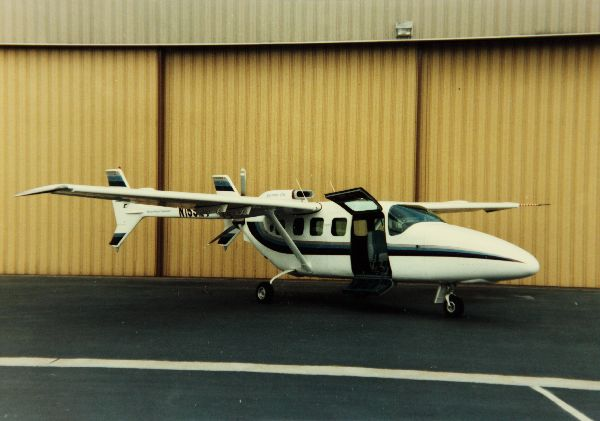 The Spectrum SA-550, a turboprop conversion of a Cessna 337 Skymaster.